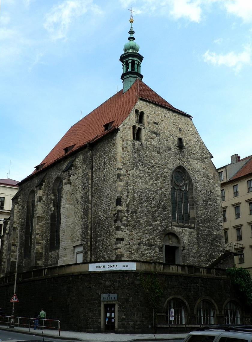 St. Vaclav church in Resslova street, Praha